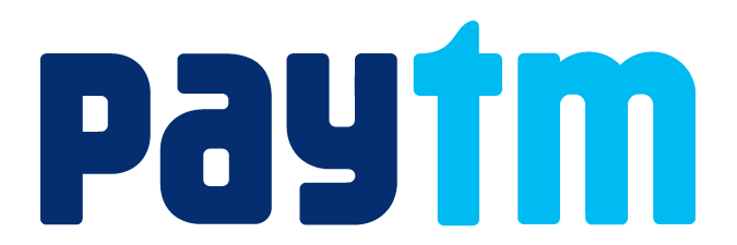 Paytm logo